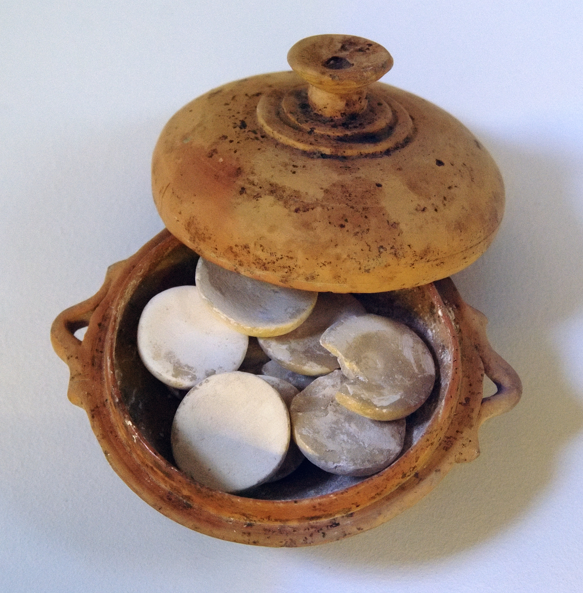 Make-up pot with molded tablets of white lead, all having the same diameter and weight (2.75 cm and 5.5 g). Found in a tomb from the 5th c. BC.